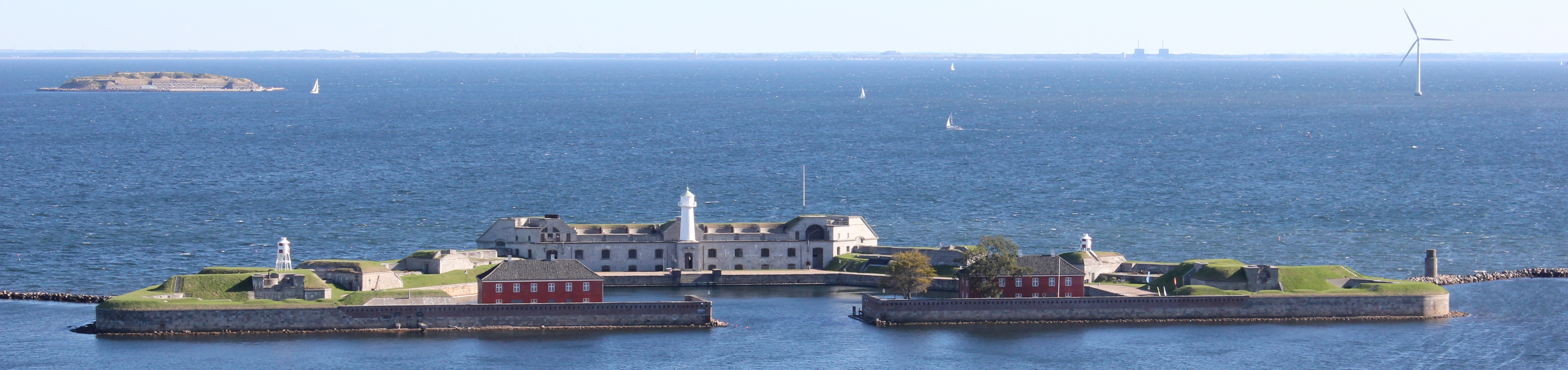 Trekroner fort near Copenhagen harbour. Background: Middelgrundsfortet to the left, Barsebäck Nuclear Power Plant in the far middle, and wind turbine of Middelgrunden to the right.